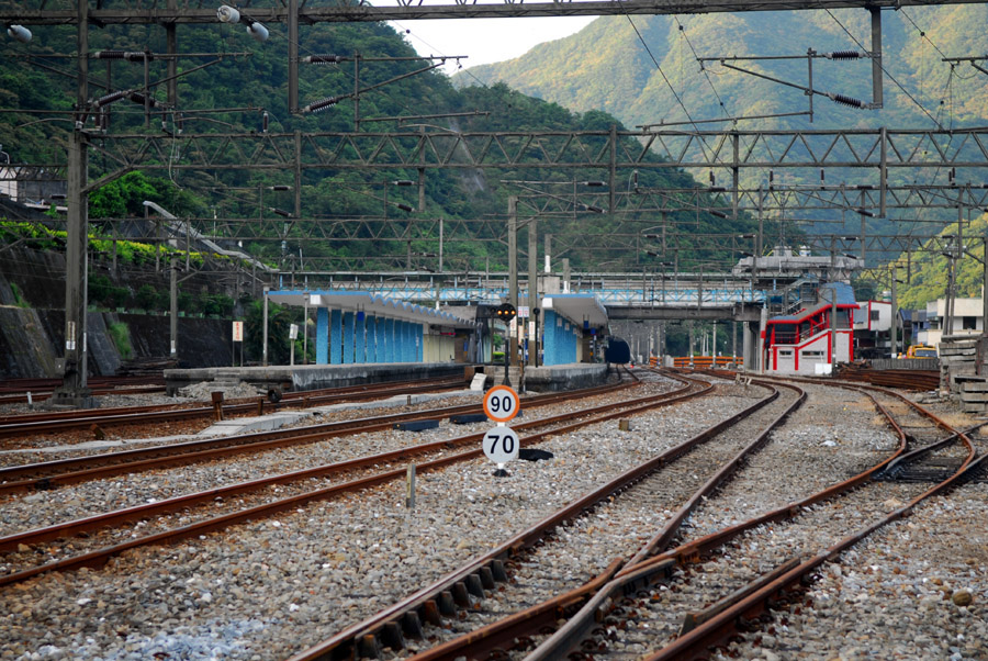 HouTong Station is a local train station of Yilan Line, part of Taiwan's eastern rail line. It's located within the boundary of RueiFang Town, Taipei County. This photo shows the big switching yard inside the station.